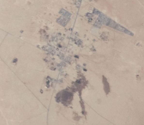 Satellite imagery of Doha and Al Wakrah taken in 2010 by NASA.